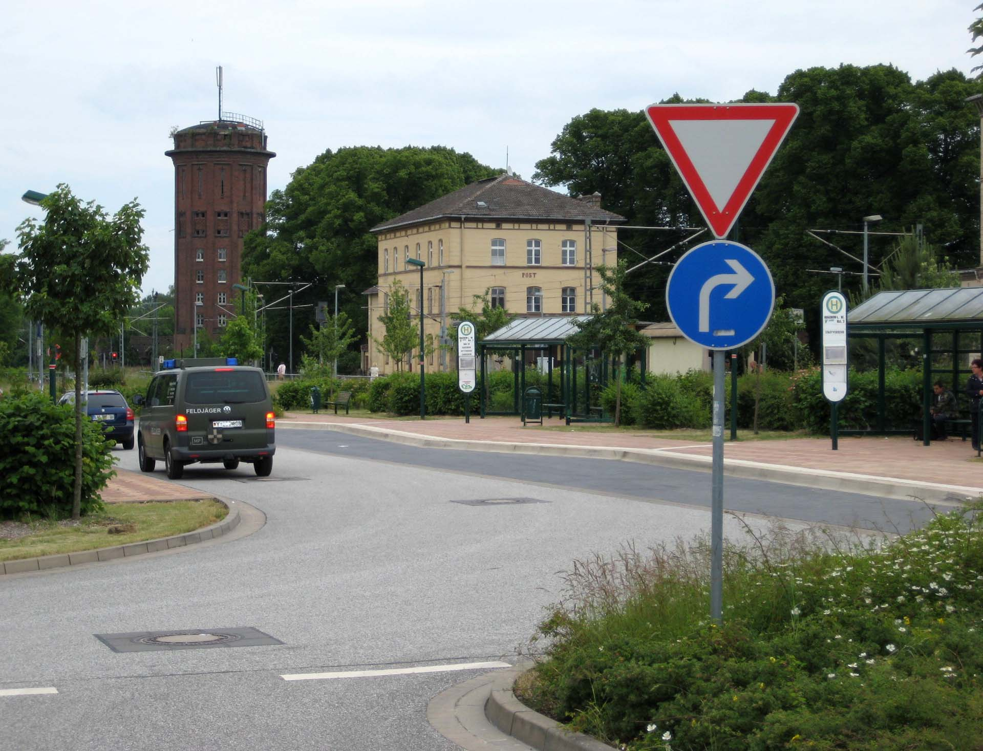 Hagenow Land, water tower and former post office